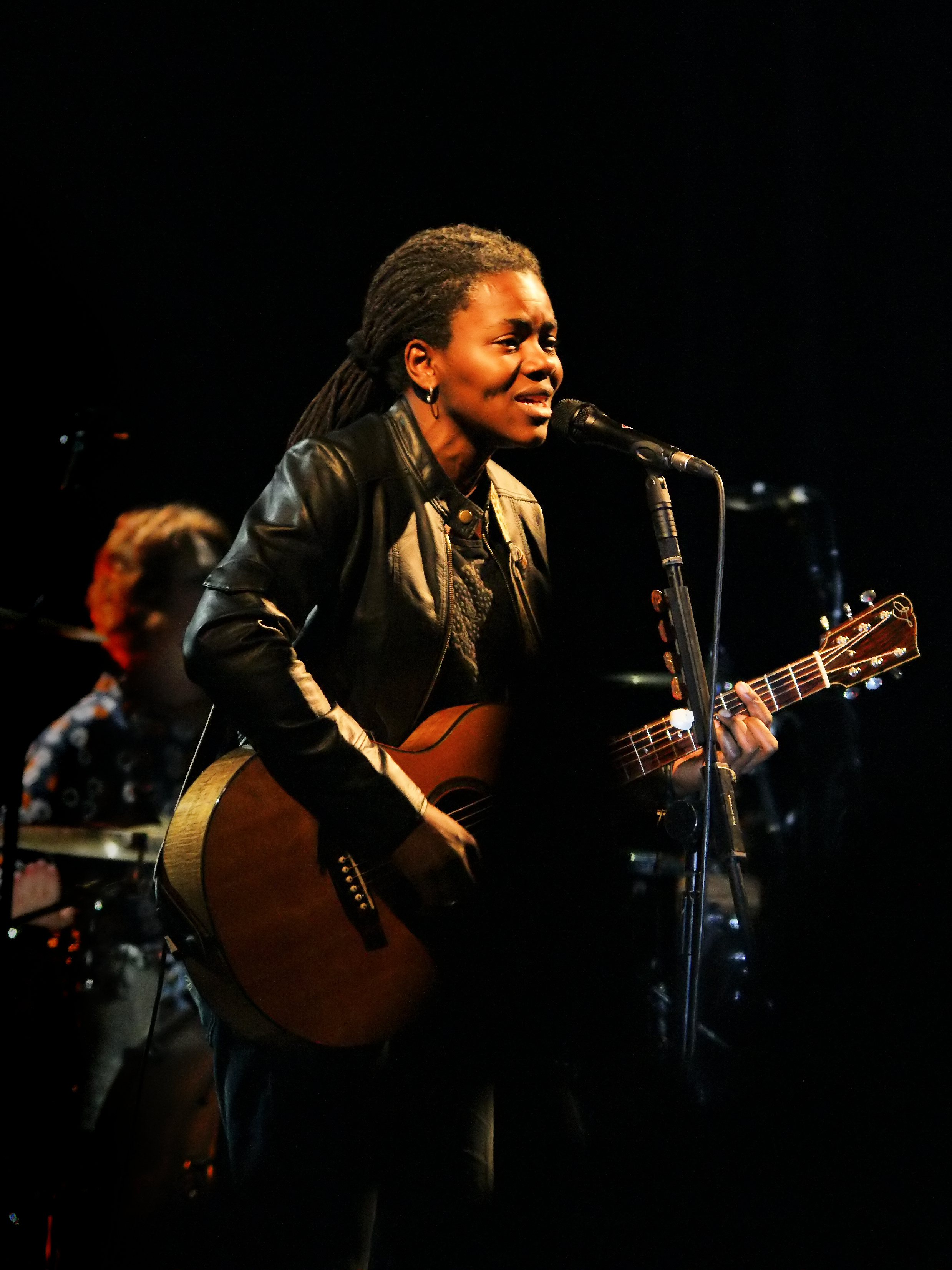 Tracy Chapman at the 2009 Cactus Festival in Bruges, Belgium.